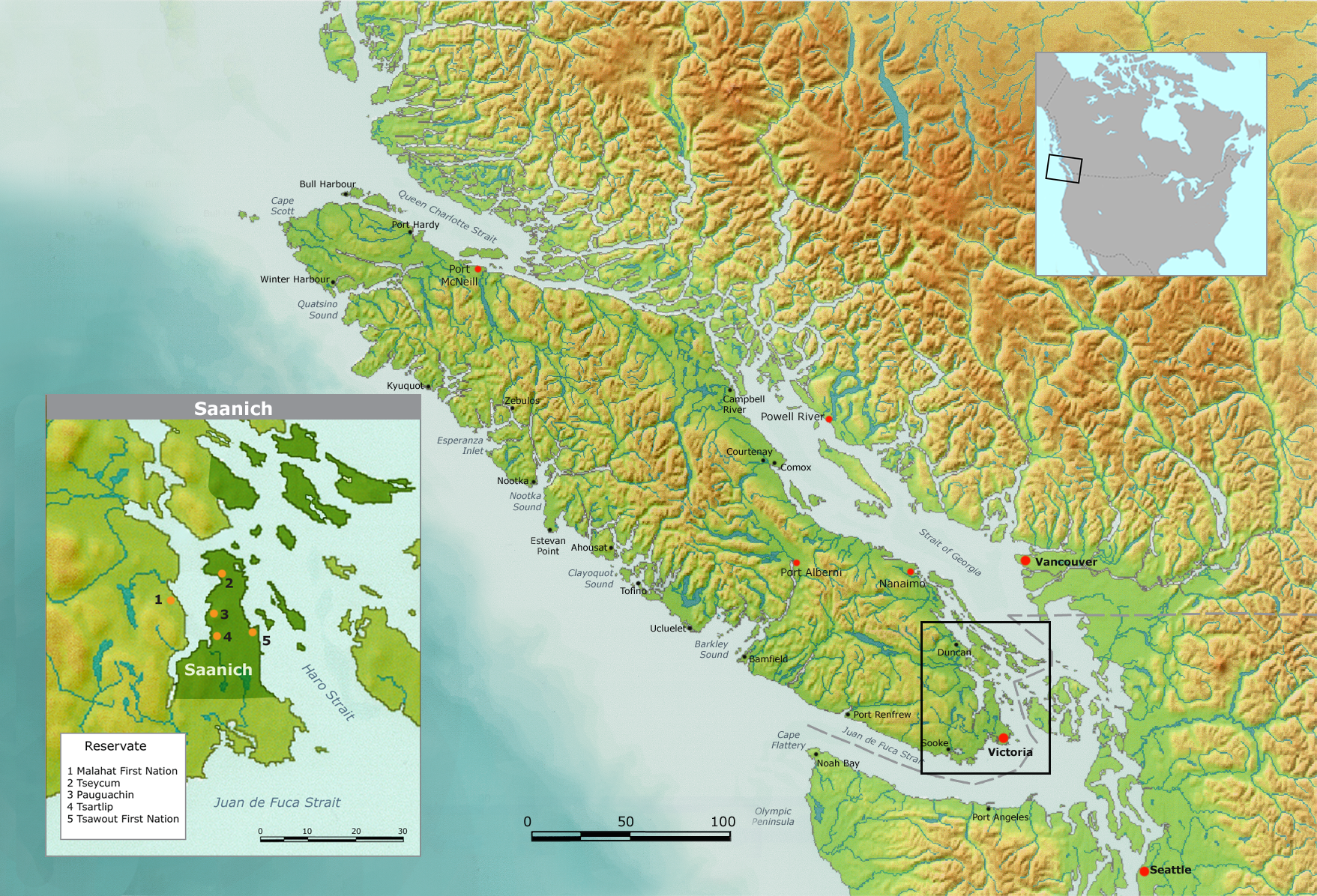 Map of Saanich tribal territory